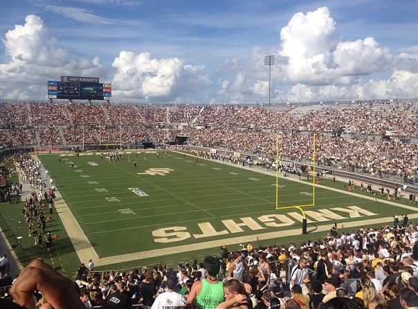 This picture shows a view of Bright House Networks Stadium from the Student Section against FIU on September 15, 2012.